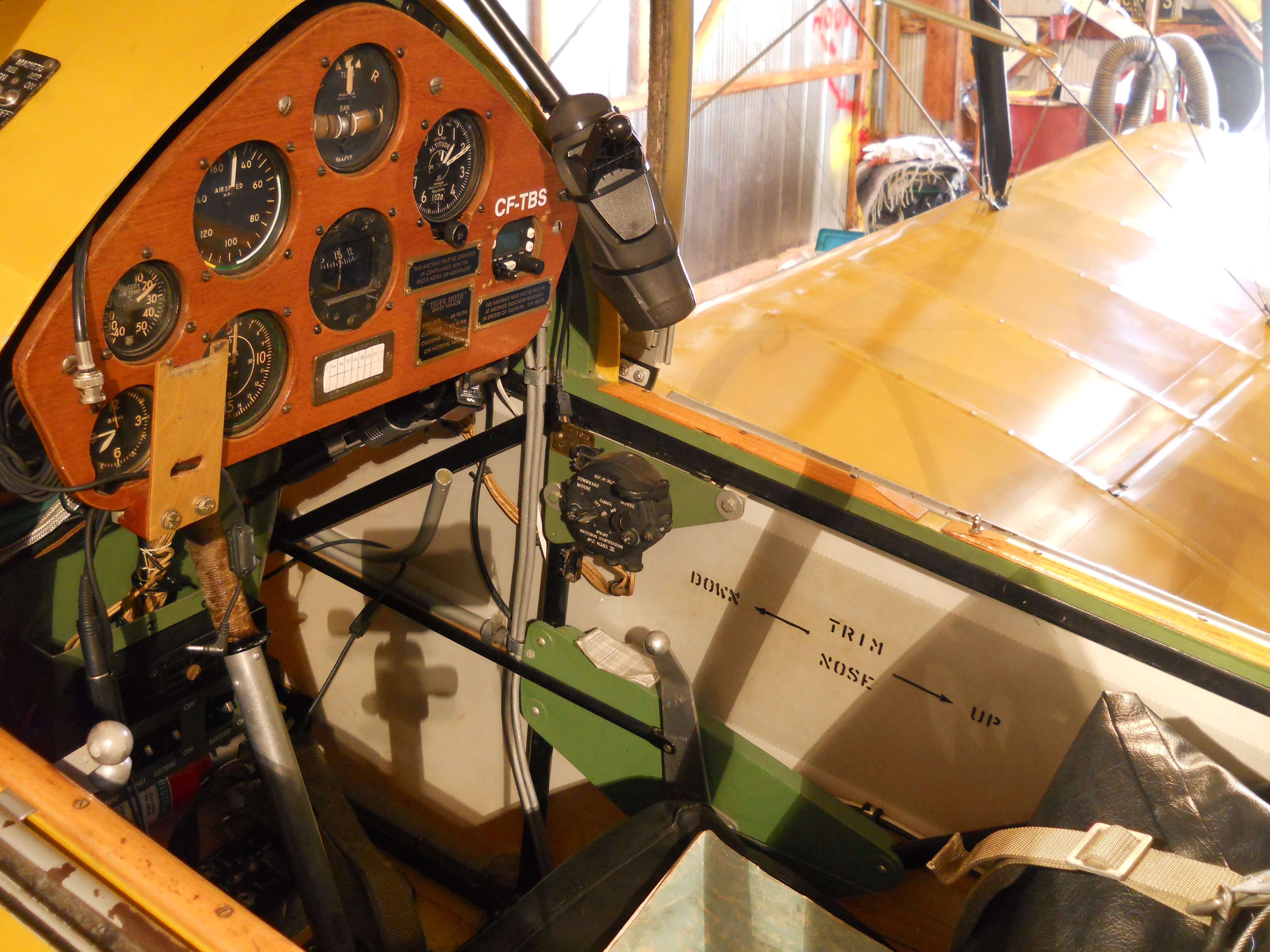 This is the interior of the rear (student or solo) cockpit of De Havilland Tiger Moth RCAF 4882, CF-TBS. The circular black object at camera centre is a Morse Code key. The black object to the right of "CF-TBS" above the Morse Code key is a night light. All pilots, navigators, wireless operators were required to know Morse Code. This unit keyed signal lights on the aircraft. CF-TBS won the Outstanding Open Cockpit Biplane Award at Oshkosh 2008, and is completely airworthy. CF-TBS courtesy of Tom Dietrich, Tiger Boys Aircraft Works. DH82C4 from No. 1 SFTS Camp Borden.